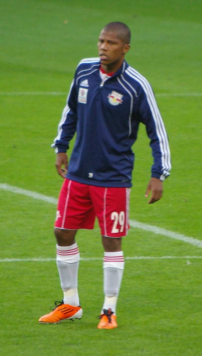 striker Red Bull Salzburg